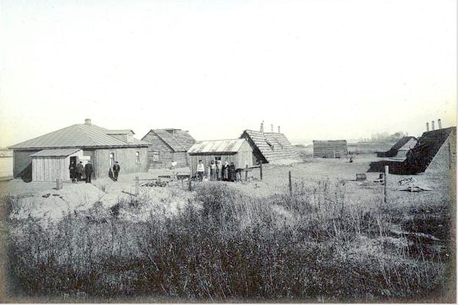 Dereivka, Ukraine